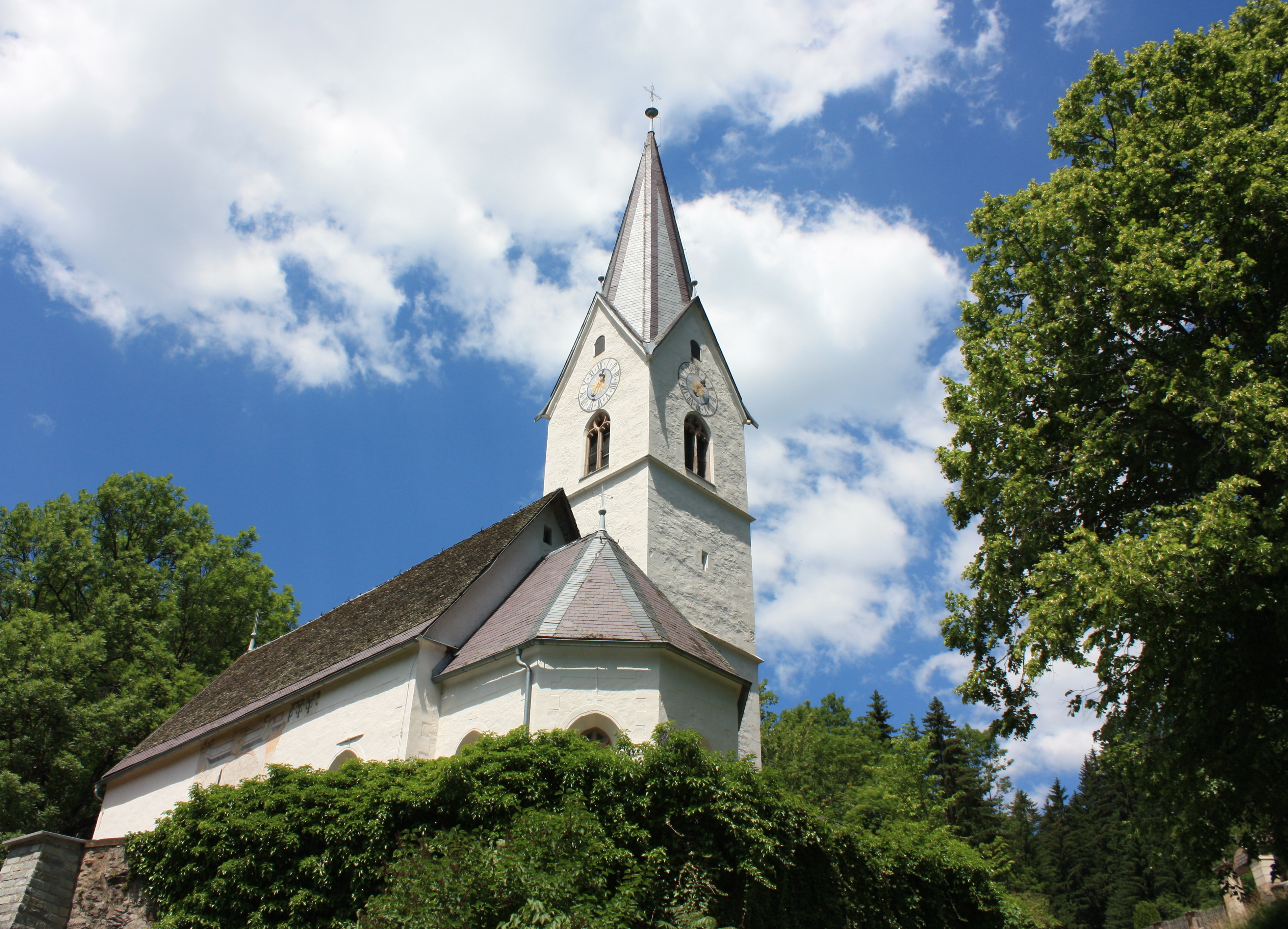 Parish church Locality:Lölling Community:Hüttenberg